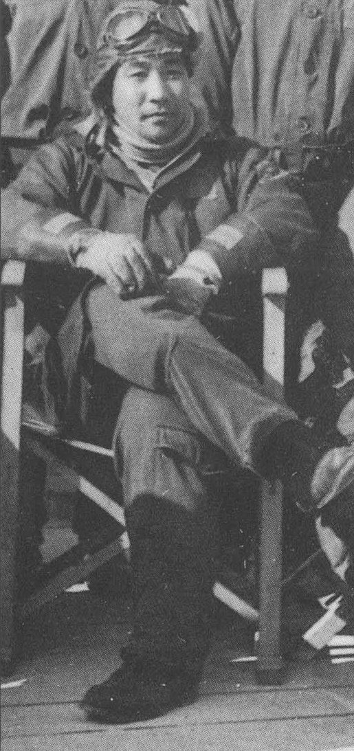 Imperial Japanese Navy fighter ace Chitoshi Isozaki. In service in the Sino-Japanese and Pacific wars, he was credited with destroying 12 enemy aircraft. This photo of Isozaki was taken in 1944 or 1945 while he served with Air Group 210 in Japan.